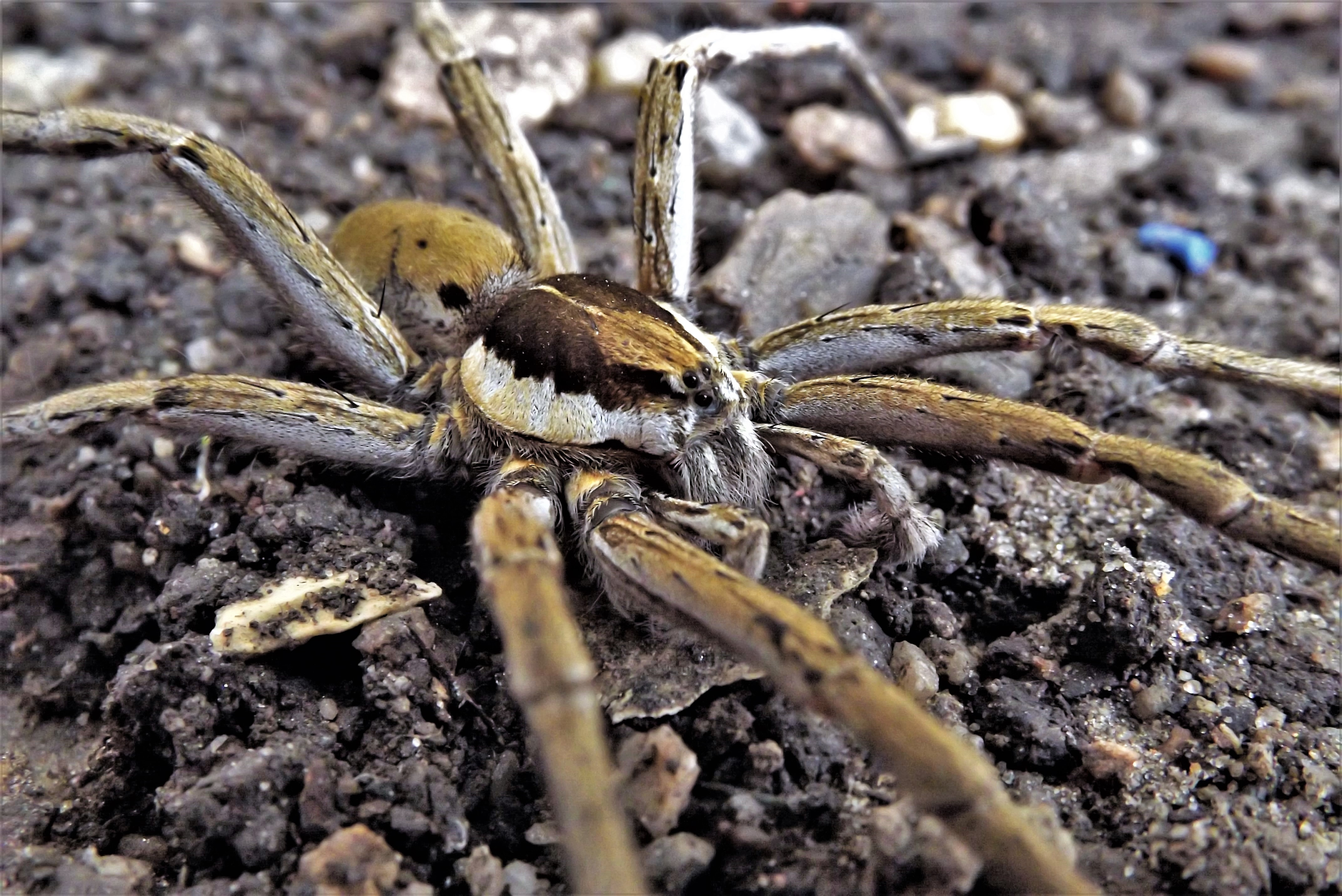 Adult specimen of a Fishing Spider (Ancylometes rufus)